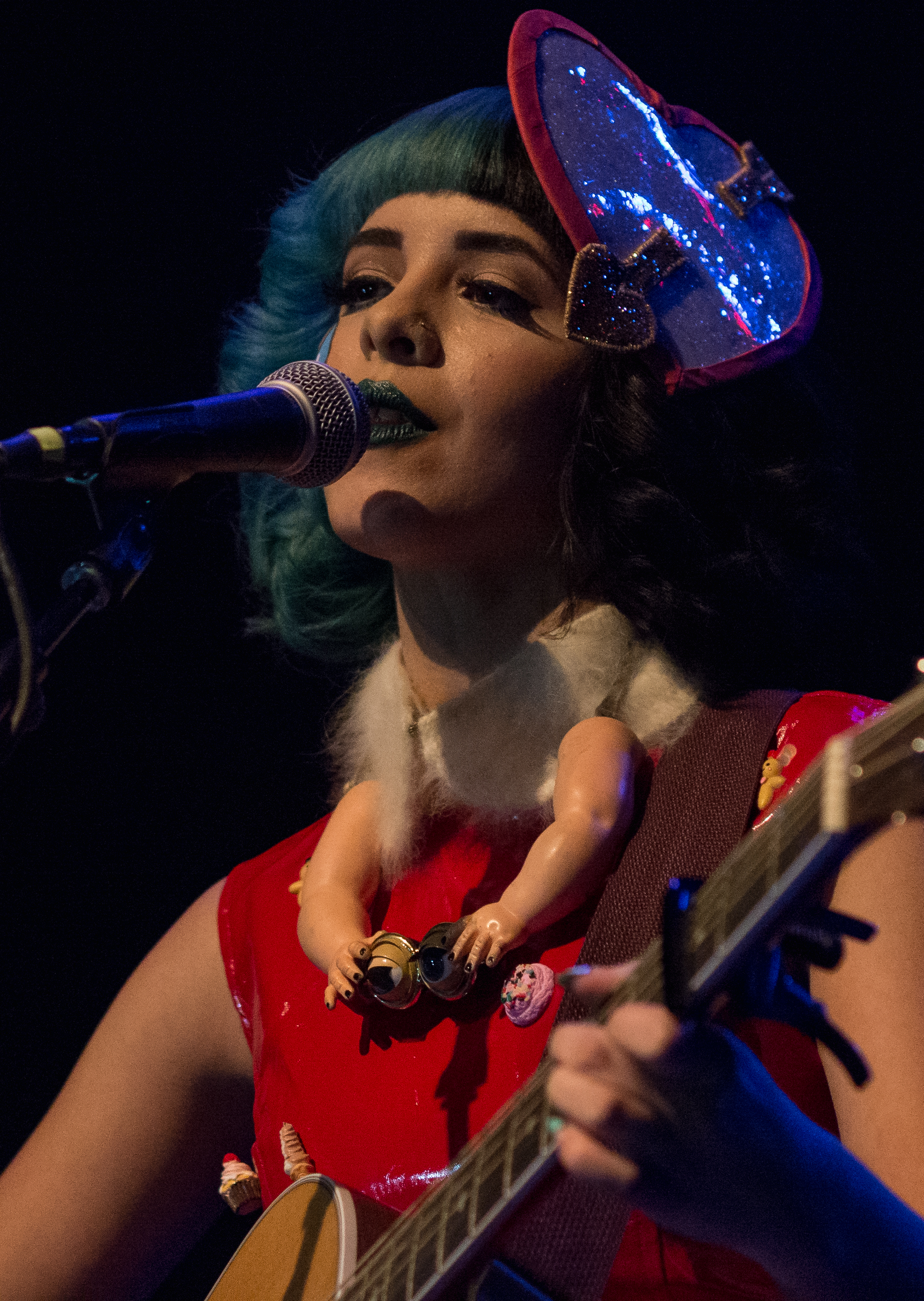 Melanie Martinez at Gramercy Theater, 2/15/2014